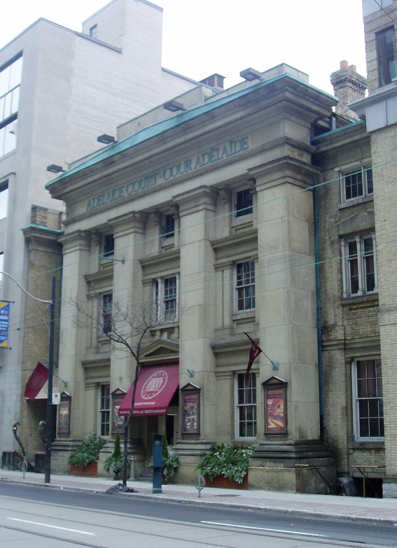 The Adelaide Street Court House, tkaen by SimonP. Currently the site of an Italian restaurant.